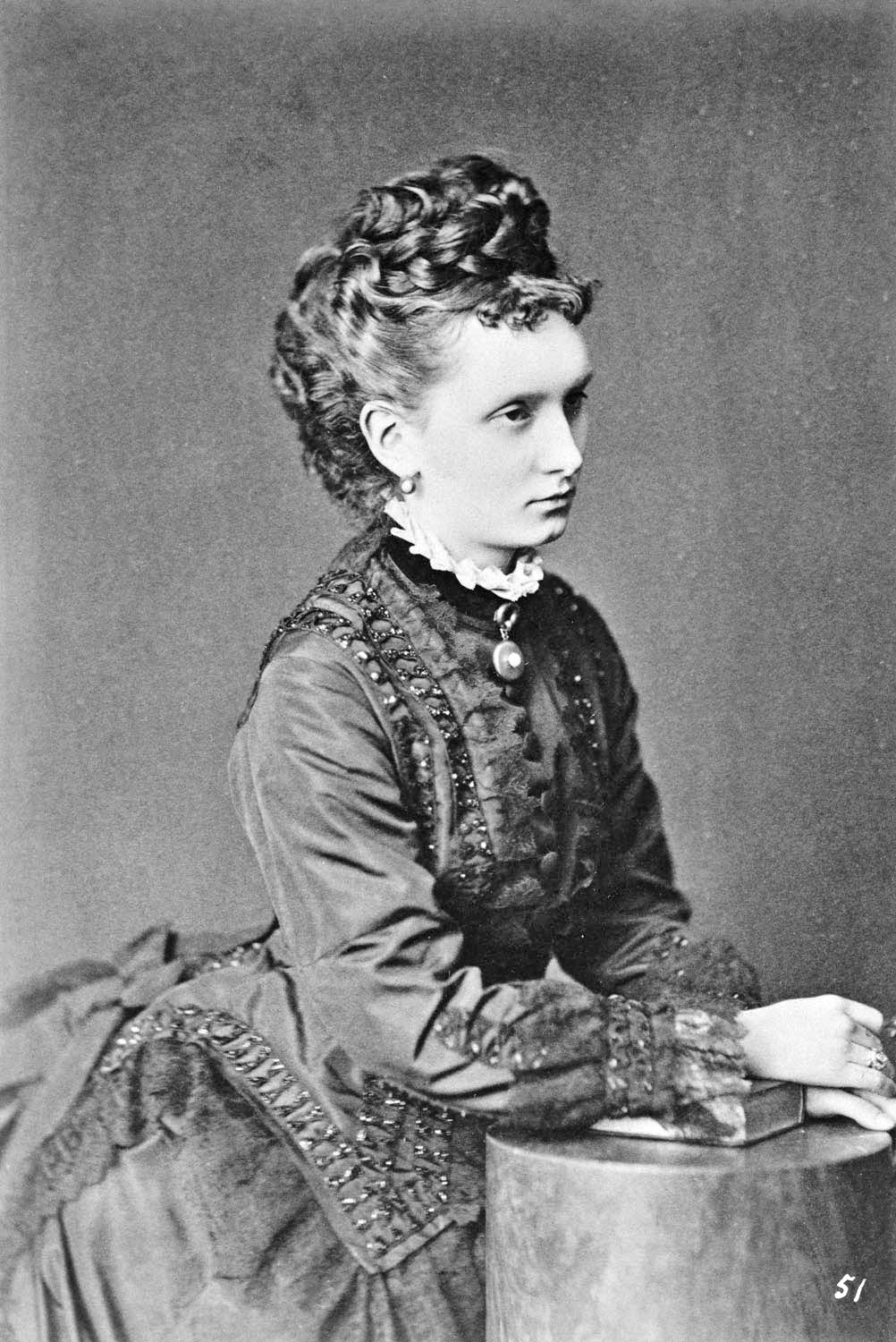 Princess Marie of Battenberg, Countess of Erbach-Schonberg